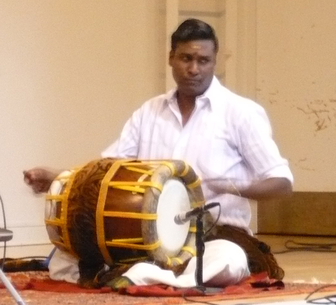 A Thavil player. Photo taken at the 31st annual Cleveland Thyagaraja Festival, at Cleveland State University in Cleveland, Ohio with a Panasonic Lumix digital camera (model DMC-LS75).